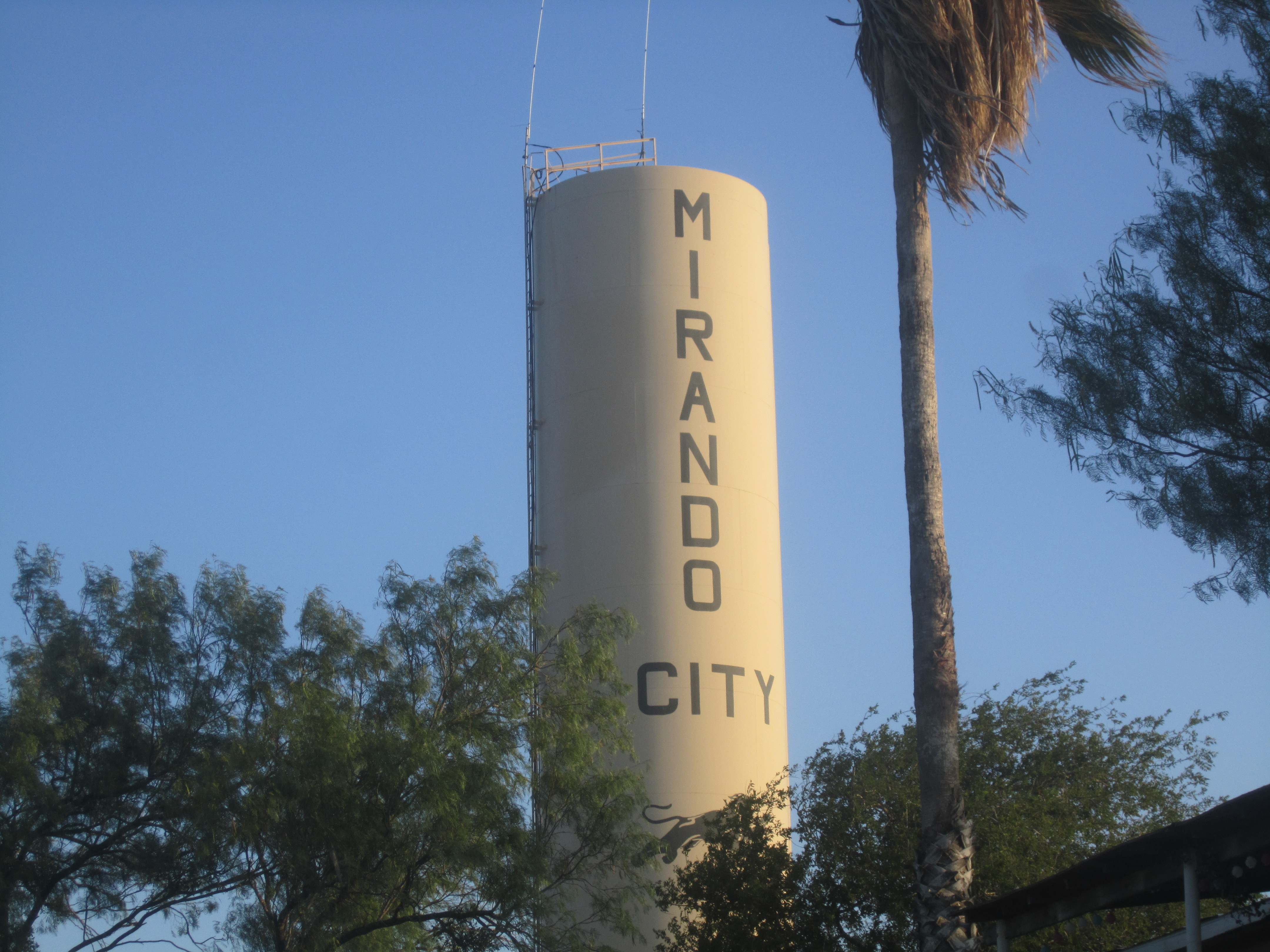 I took photo of Mirando City, TX, water tower with Canon camera.